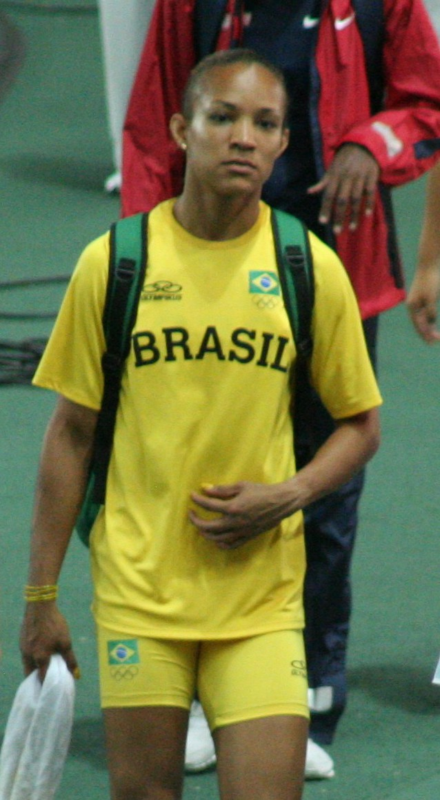 World Athletics Championships 2007 in Osaka - Keila Costa.